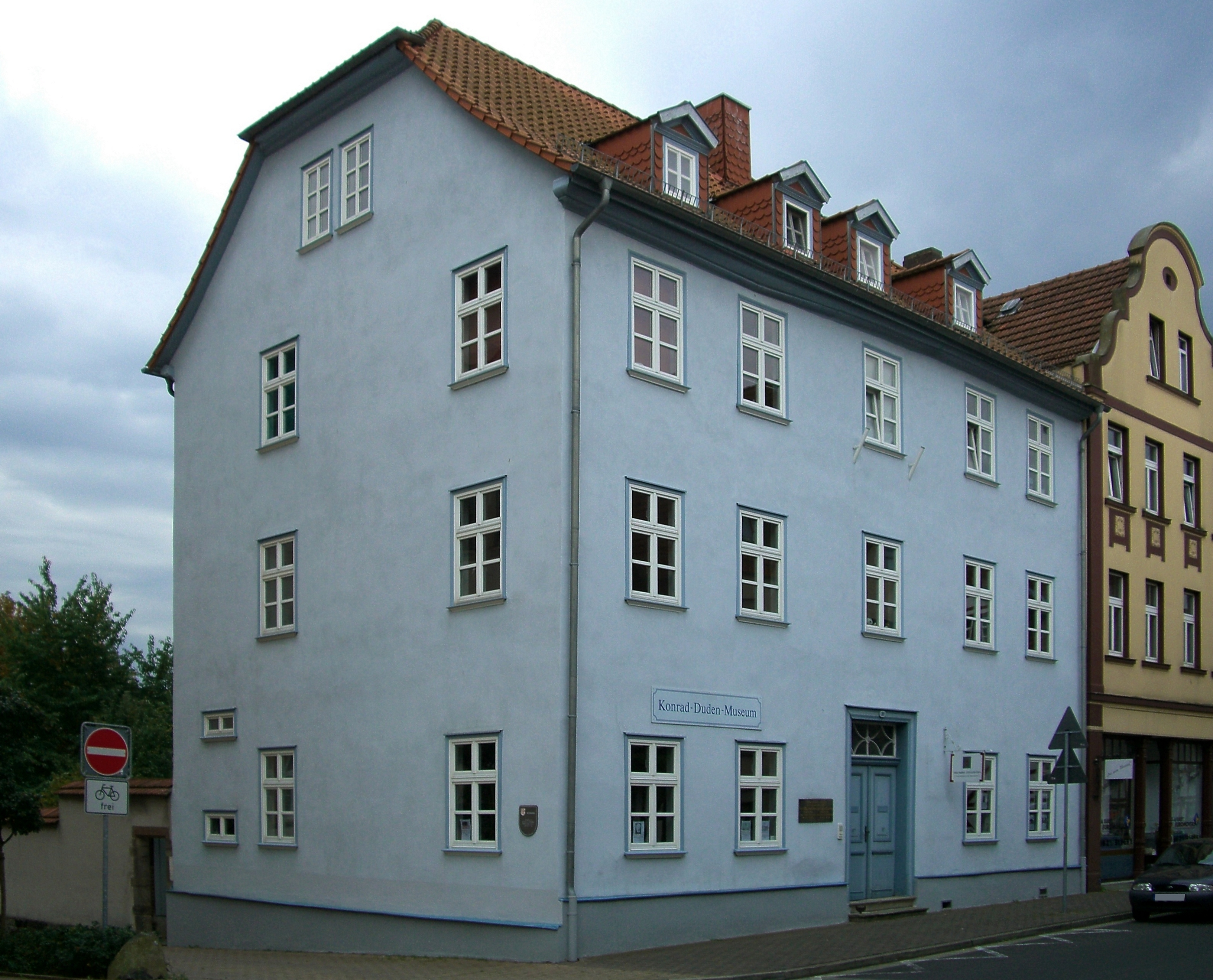 Former house of the headmasters from towns grammar school (Old Klosterschule). Konrad Duden lived here from 1976 until 1905. In two rooms, there ist as little museum about Konrad Duden.